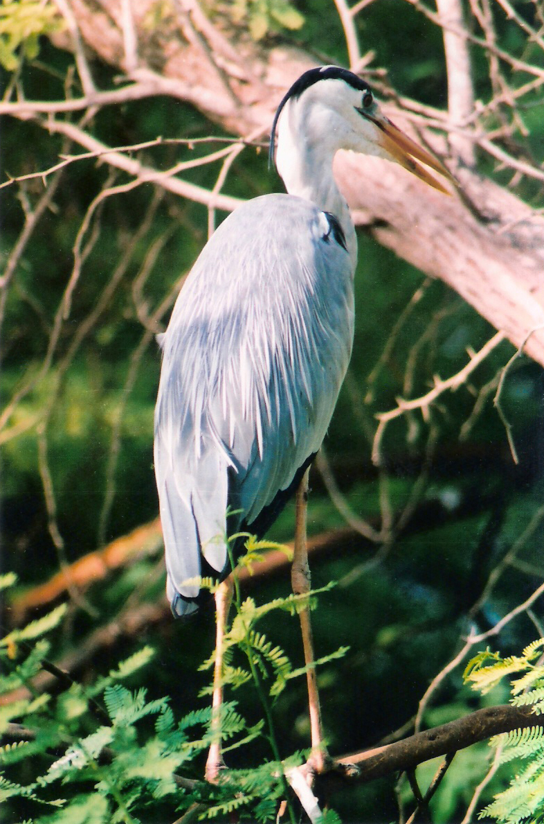 Grey Heron Ardea cinerea. Kumarakom Birds Sanctuary, Kerala, India.